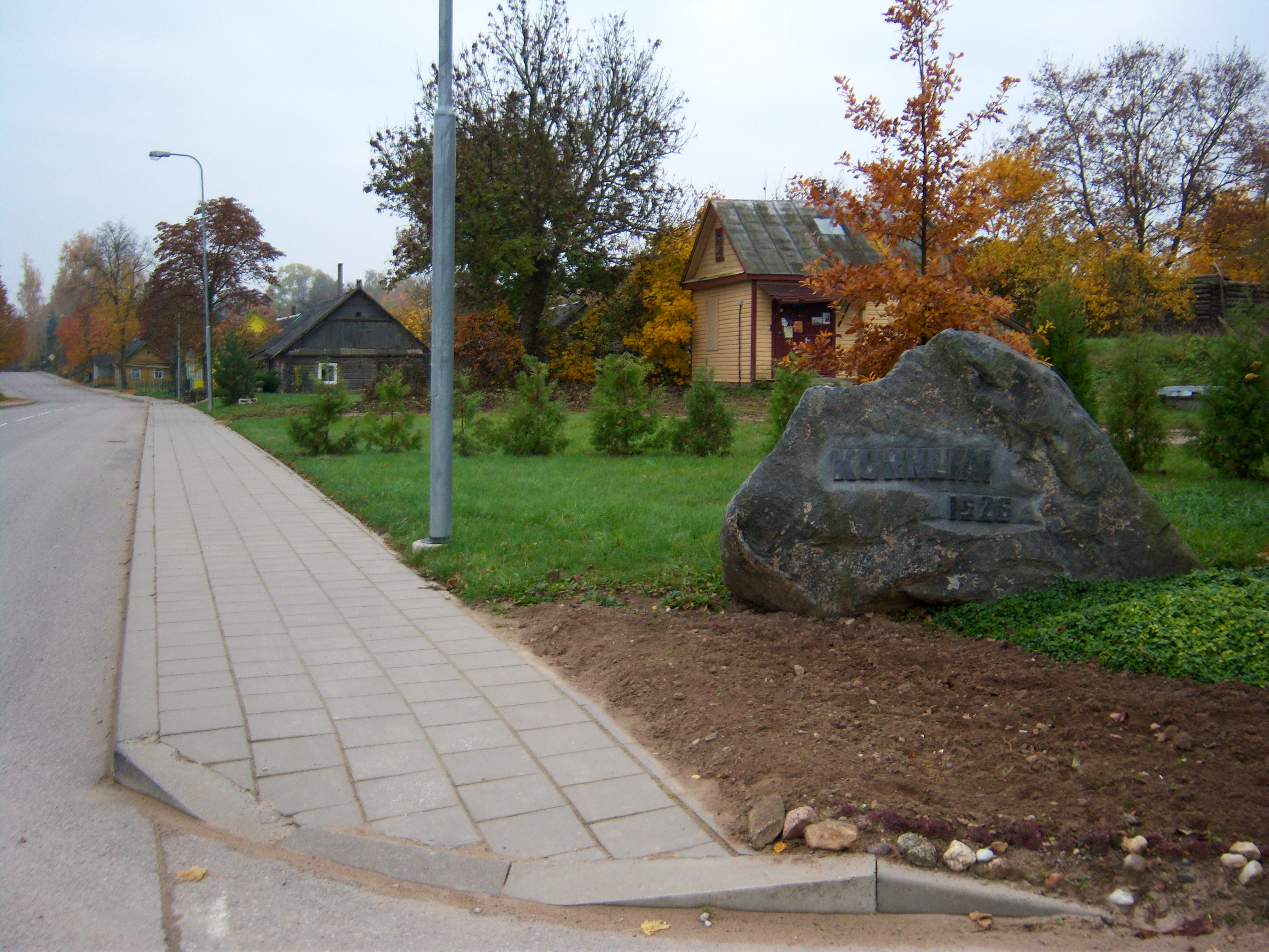 Stone, Kurkliai, Anykščiai District, Lithuania